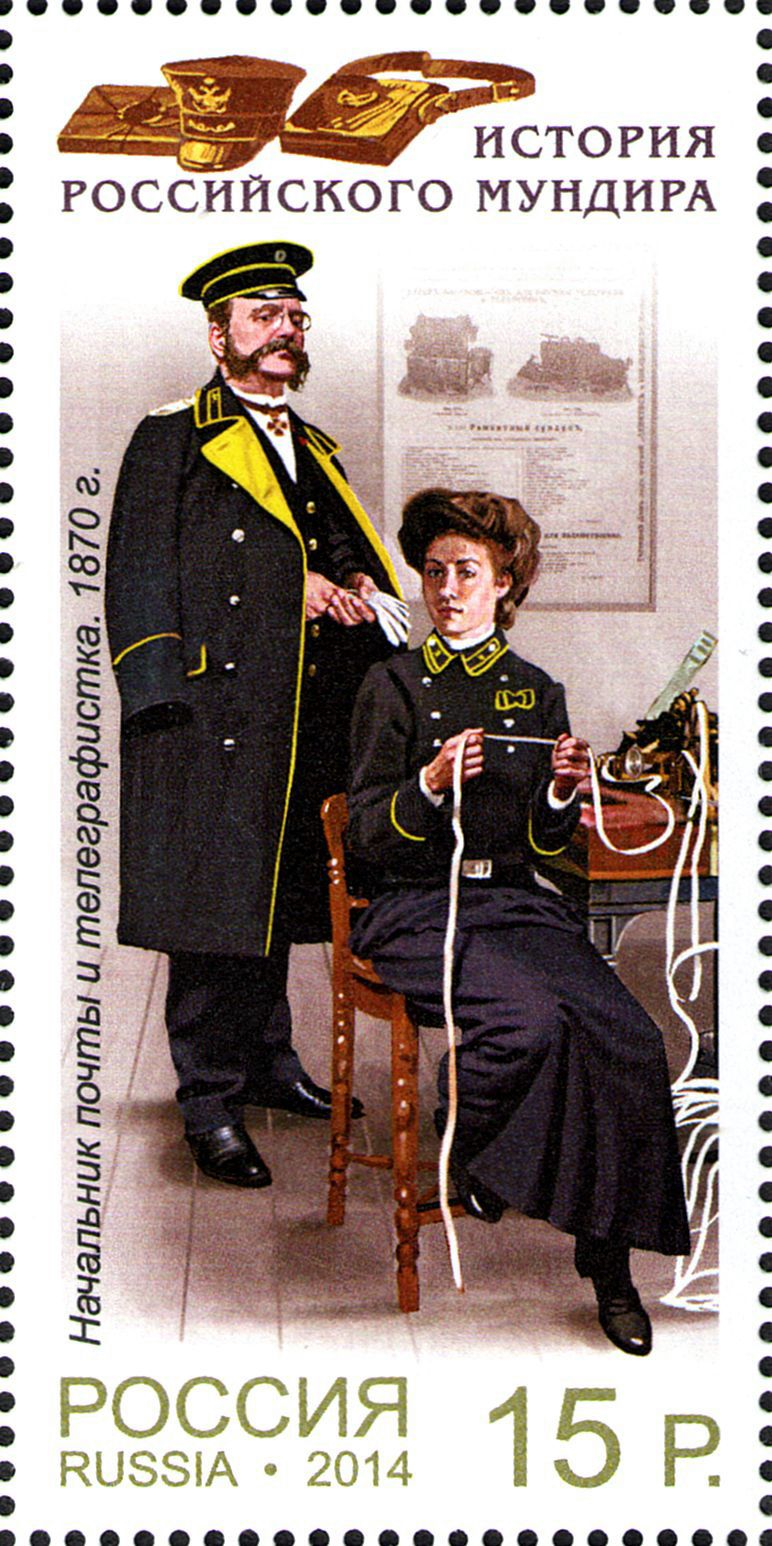 The History of the Russian Uniform (the ongoing series, issue II). The uniform of the communications service. A head of a post office and a female telegraphist. 1870. The stamp of Russia, 15.00 Rubles, 1 September 2014, PTC Marka Catalogue No 1872. Coated paper. Offset printing. Perforation: comb 12×12. Size of the stamp: 32.5×65 mm. Print run: 336,000.